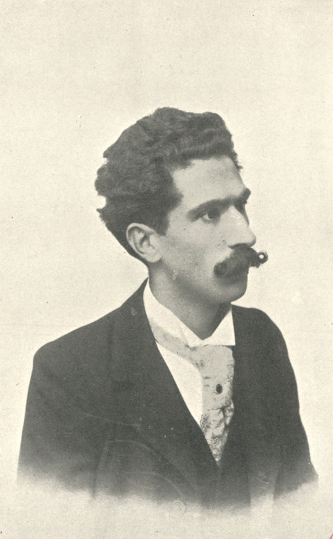 Photograph of Portuguese Republican politician Carlos de Lemos, included in the Album Republicano, published in 1908.